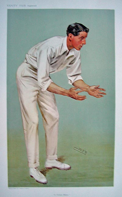 Caricature of Kenneth Lotherington Hutchings (1882-1916). Caption read "A Century Maker". Brief biography read "K. L. Hutchings - Men of the Day No. 1079. Was born at Southborough , a village near Tunbridge Wells on December 7th 1882, and was the youngest of four brothers, all of whom gained their colours at Tonbridge School. K.L. Hutchings was in the eleven for five years, and captained the team for the last two, with an average of 47 per innings in 1901 and 62 in 1902. He was one of the Kent XI that visited the United States in 1903; but he was hardly known in first class cricket till last season, when he was one of the most successful bats in England; he averaged 64.66 for Kent in the County Championship games..... By scoring two centuries for Kent in their match with Worcestershire, Mr. K. L. Hutchings joins the select company who have gained this distinction".